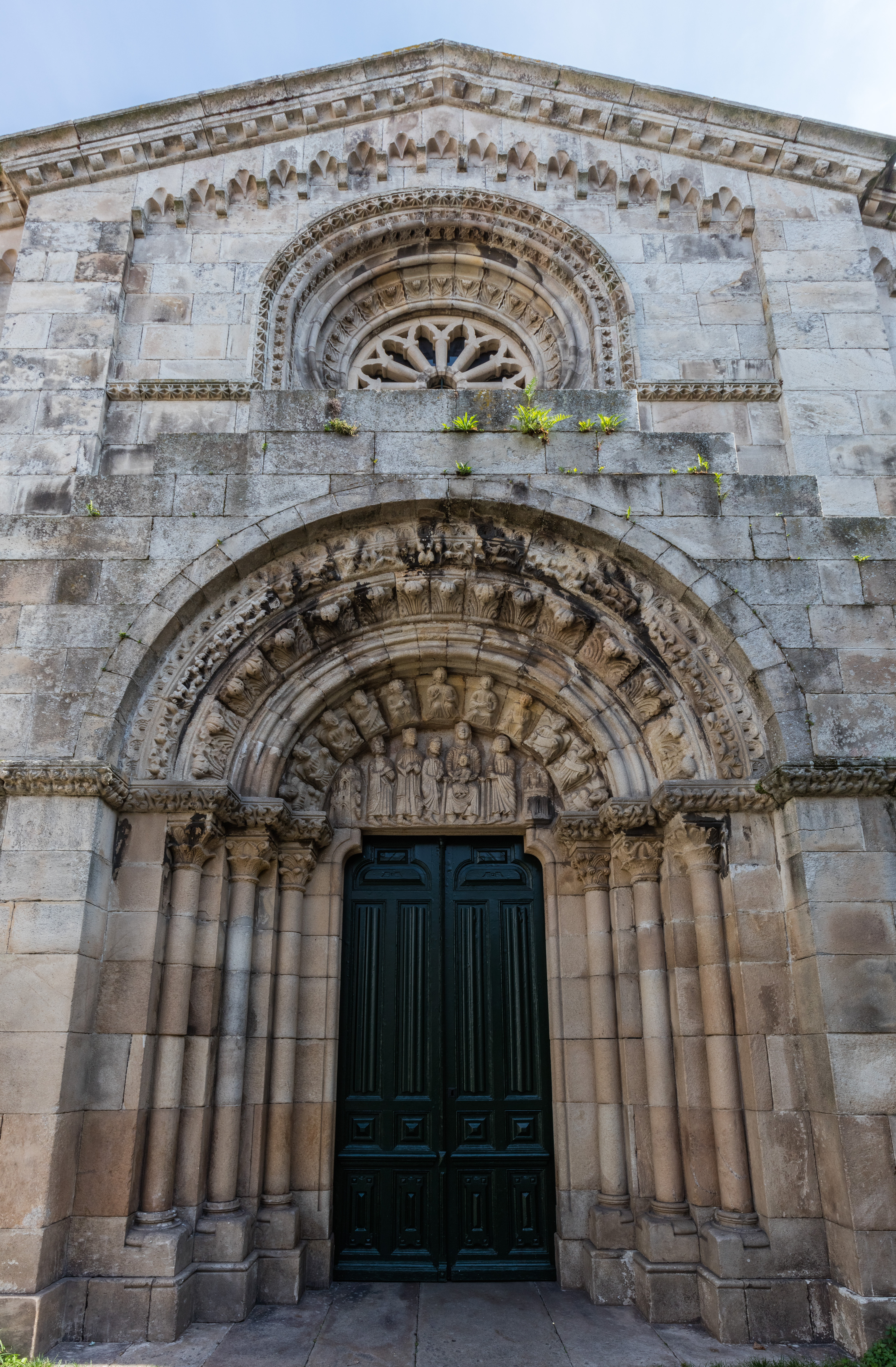 Collegiate of Santa María del Campo, La Coruña, Spain